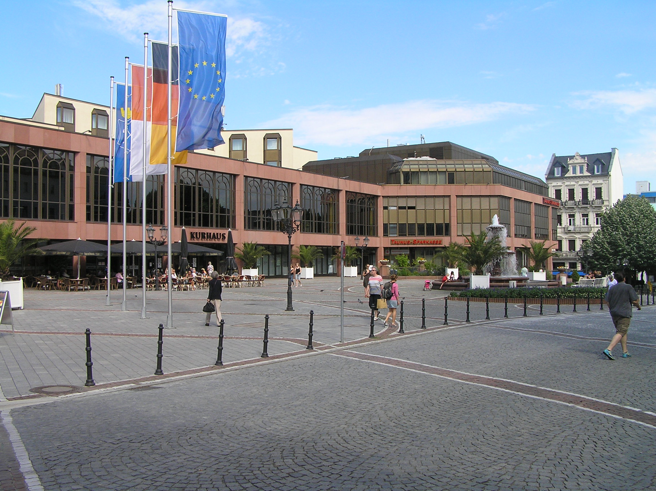 Kurhaus (Spa centre) of Bad Homburg, Germany, 2008, Front from Louisenstrasse